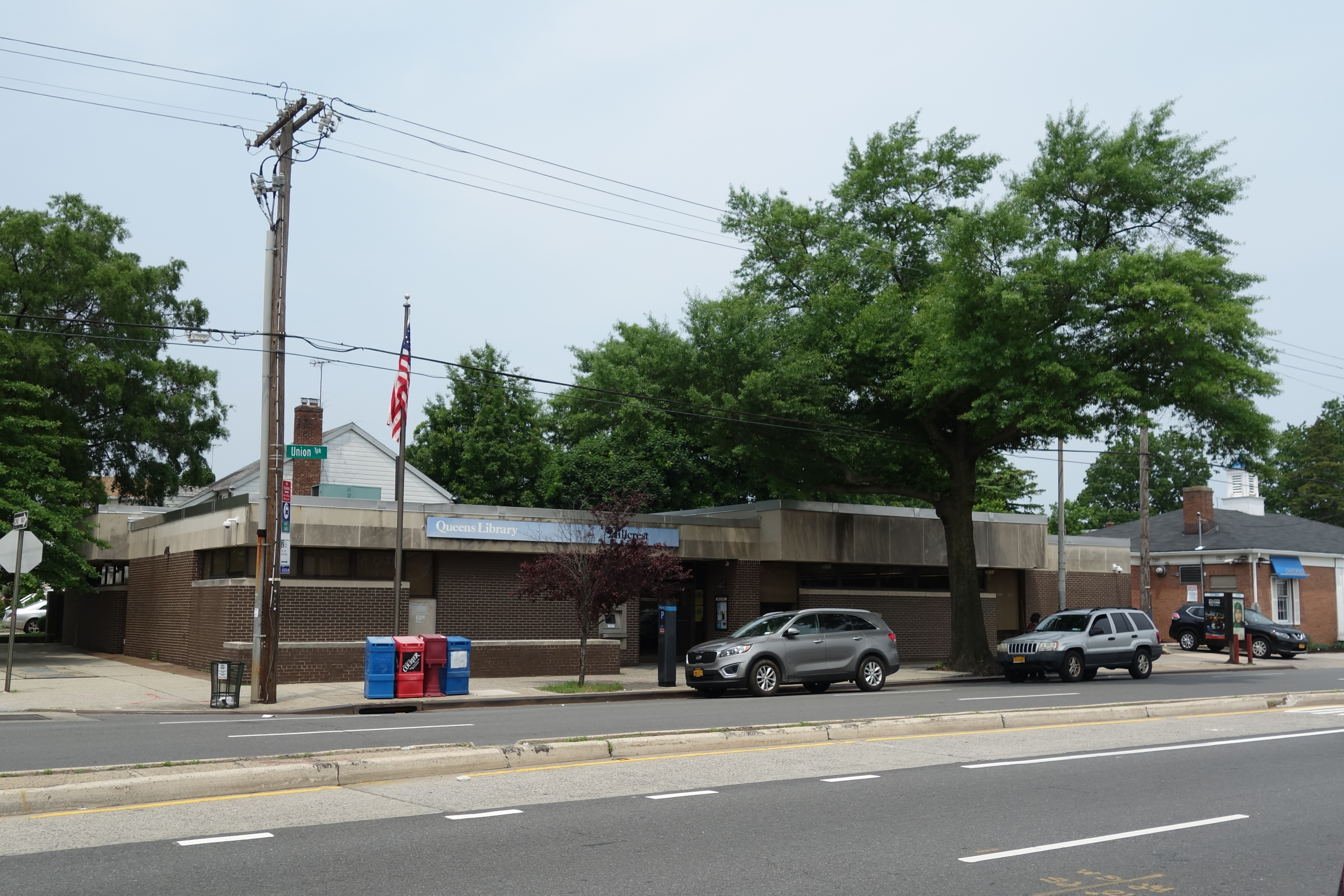 Looking across at the Hillcrest branch of Queens Library, at the northeast corner of Union Turnpike and 187th Street in Fresh Meadows, Queens. In spite of its name, the library is located around 10 blocks east of what would be considered "Hillcrest".